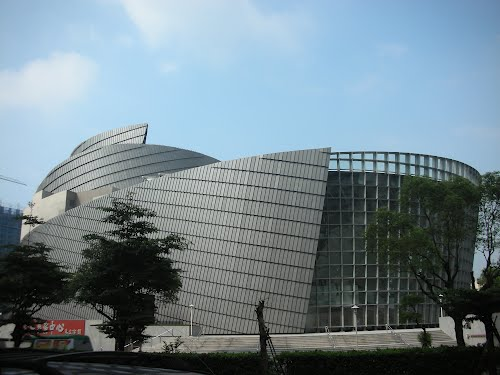 Multifunction Center for Exhibition and Performance- Taoyuan